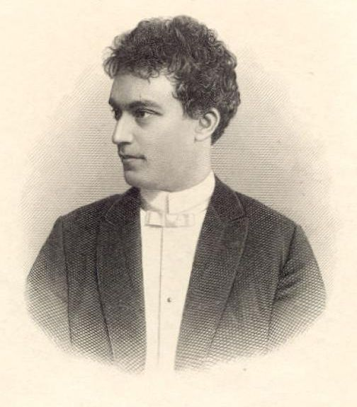 Austrian actor and author Otto Sommerstorff